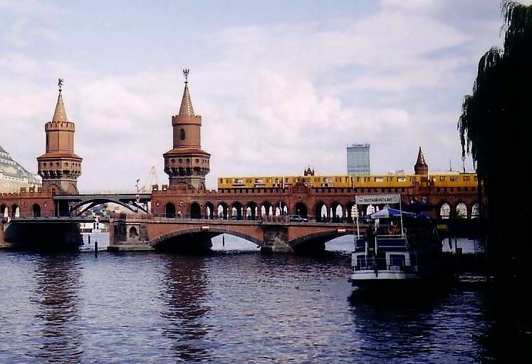 An U-Bahn train crosses the Spree at the Oberbaumbridge in Berlin